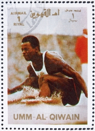 Randy Williams